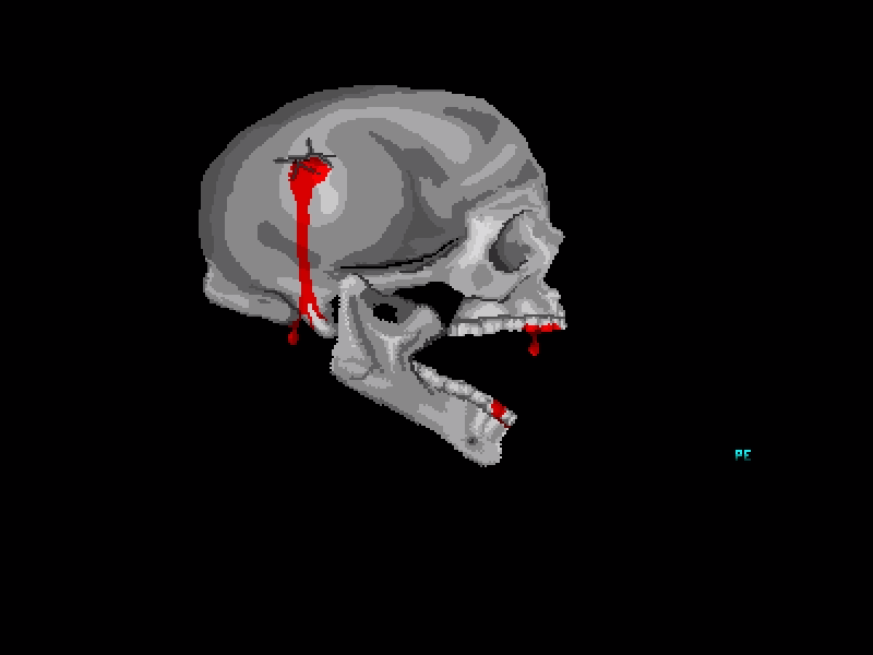 Screenshot of the image displayed by the NightMare Amiga scareware. NightMare (created by Patrick Evans) is in the Public Domain per the READ.ME! file.